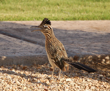 Greater Roadrunner — Geococcyx californianus. Original caption from en: "I took this picture this morning in Lake Havasu, Arizona. It is a Greater Road Runner. It actually woke me up by flying onto my patio and squawking at me. It seemed to want something, or it was trying to cool off in the shade."